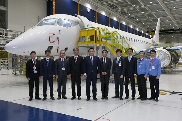 Minister of Land, Infrastructure, Transport and Tourism Kazuyoshi Akaba posing in front of a Mitsubishi SpaceJet.